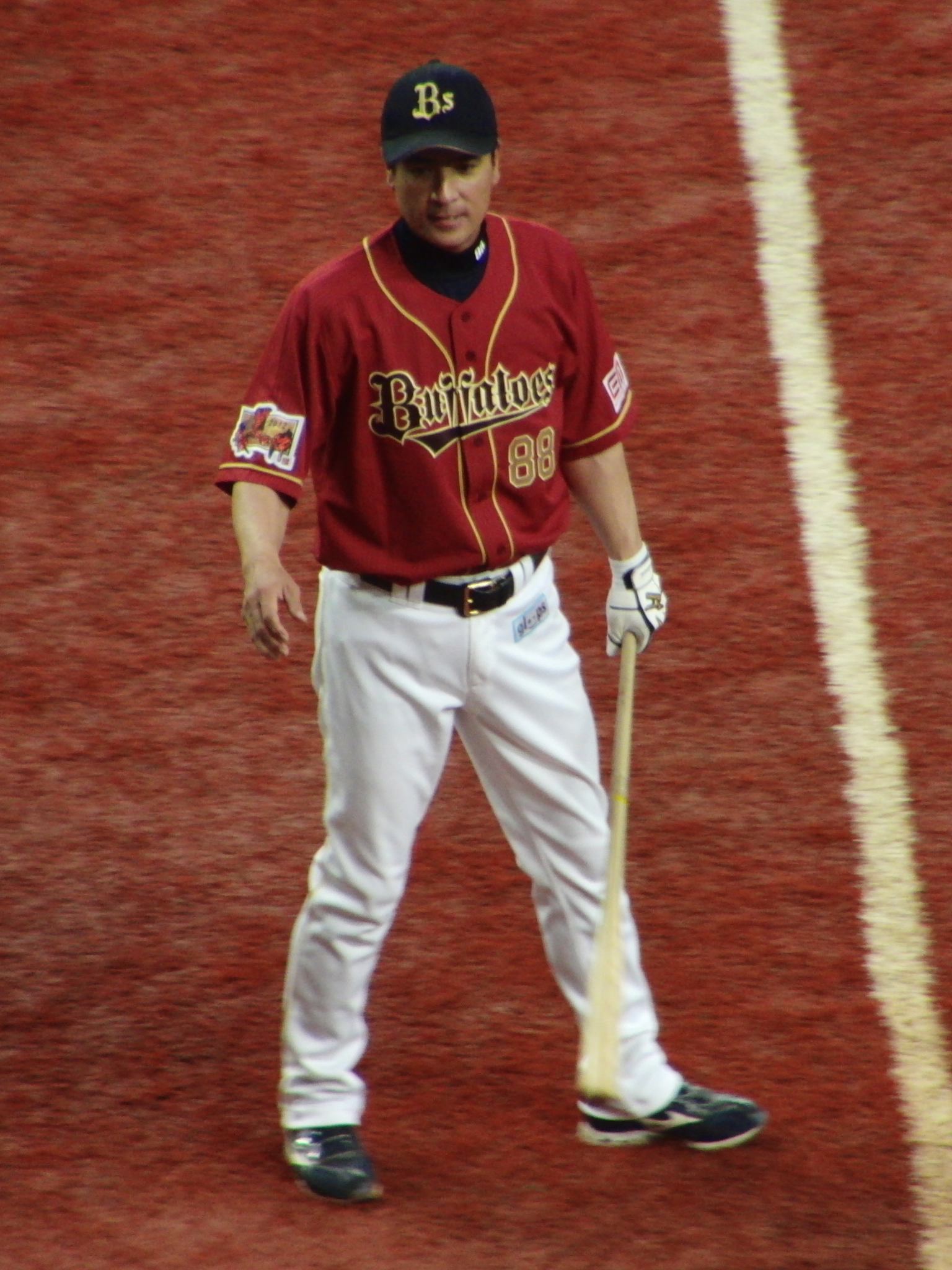 Hiroshi Moriwaki, coach of the Orix Buffaloes, at Osaka Dome.